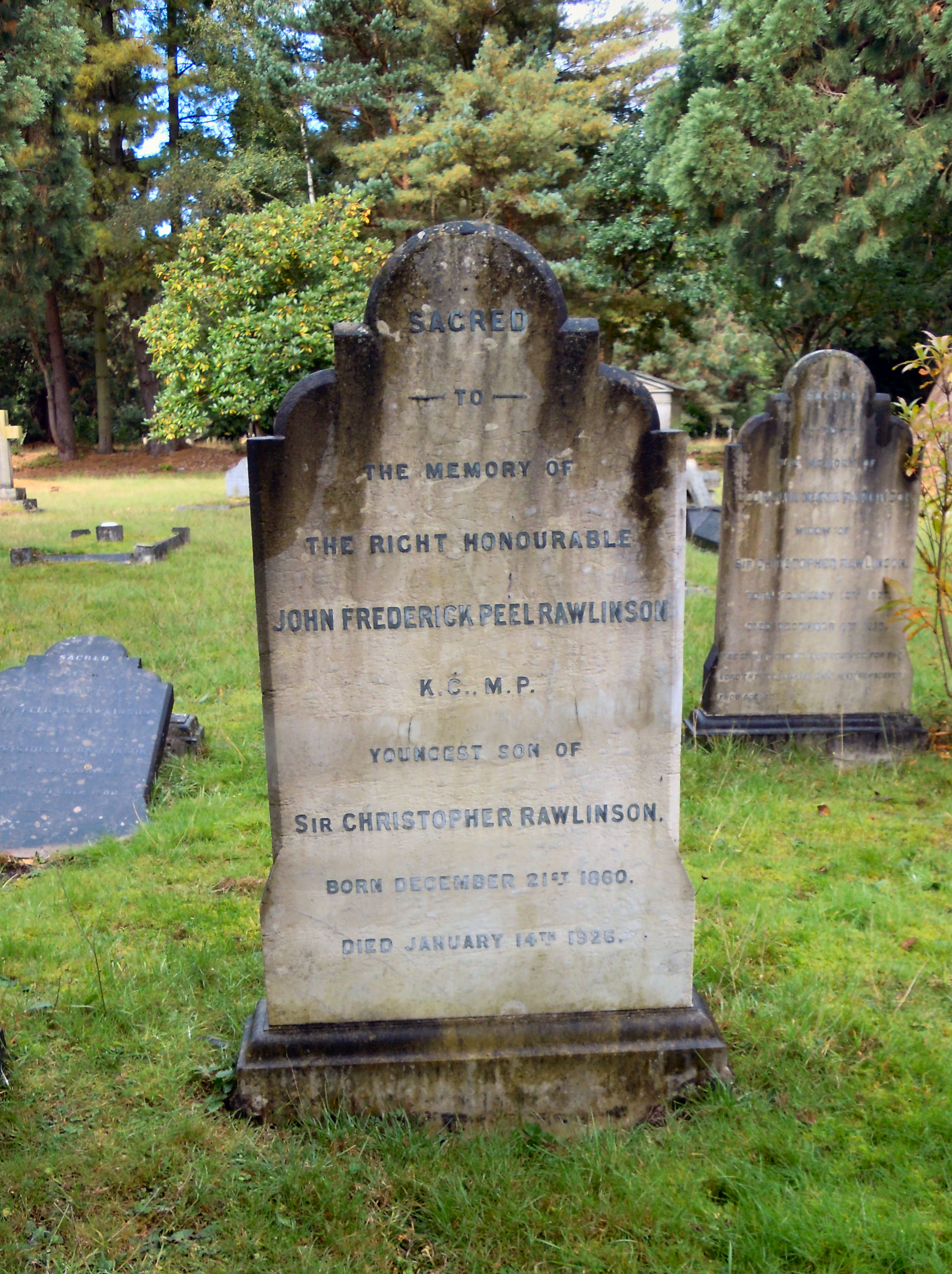 The grave of John Frederick Peel Rawlinson in Brookwood Cemetery